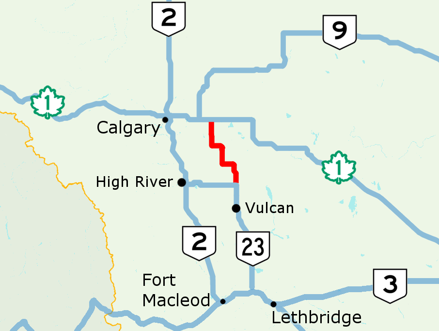 OpenStreetMap of Highway 24 in southern Alberta.